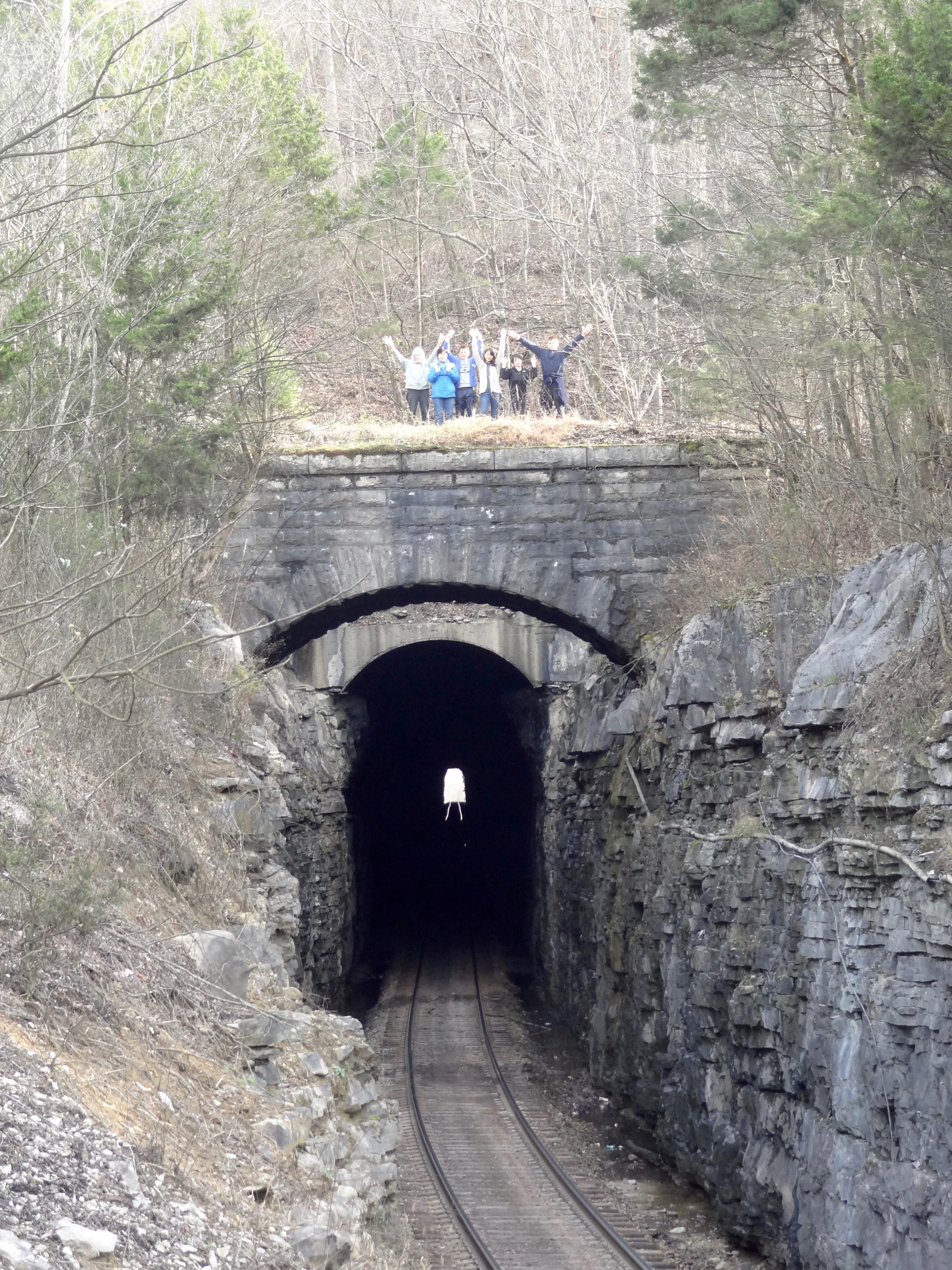 The Cowan Tunnel, or Cumberland Mountain Tunnel, is a railroad tunnel near Cowan, Tennessee. This photo is at the north end of the tunnel looking into the interior. The old mountain goat trail bridge is in the foreground with people standing upon it. The tunnel was built by the Nashville & Chattanooga Railroad Company and was completed in 1852 with the tracks laid in 1853. The strategically important tunnel, part of the rail linkage between the Midwestern United States and the Southeastern United States, played a vital role during the American Civil War. It was considered a major engineering feat at the time. It is still operational and owned by CSX Railroad. The tunnel was listed on the National Register of Historic Places in 1977